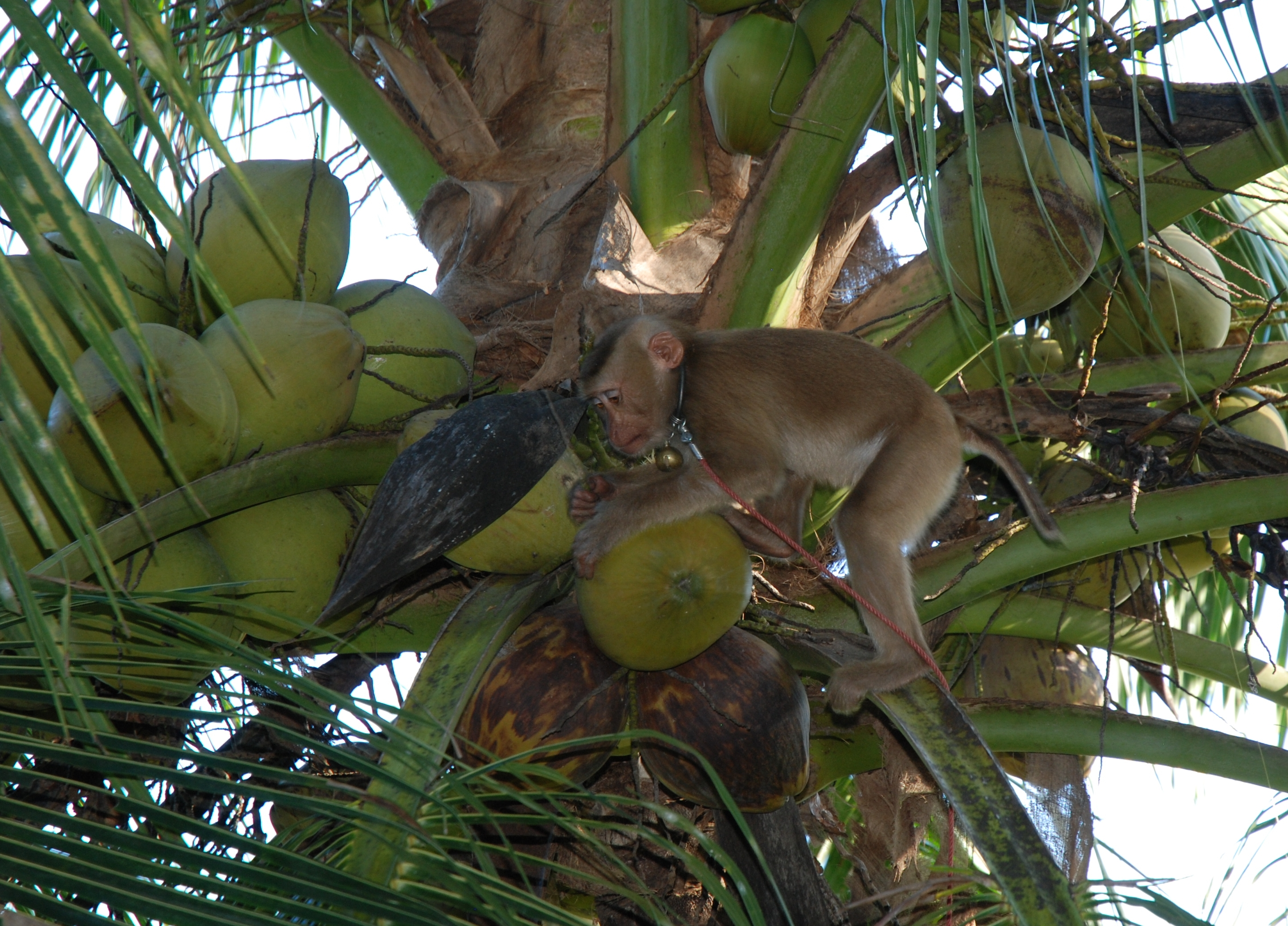 Monkey (Macaca leonina) helping harvesting of coconuts in South Thailand